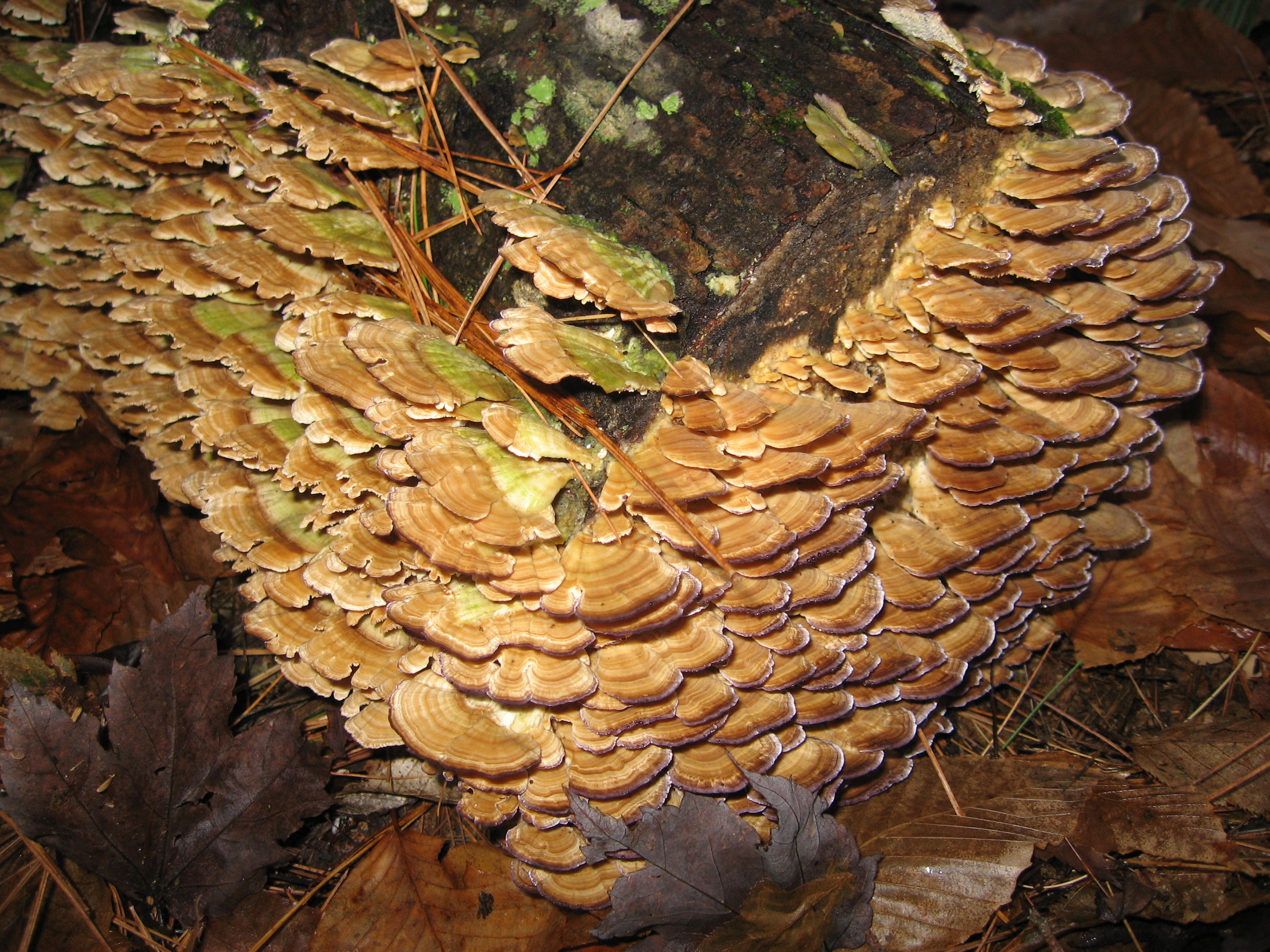 Polypores (mushrooms in the genus Trichaptum) on the end of a log, photo taken in New England